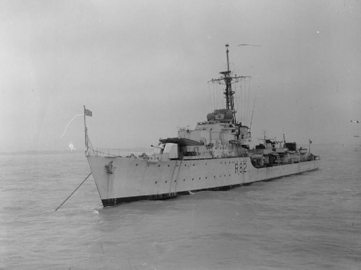 Photograph of British C class destroyer HMS Creole.